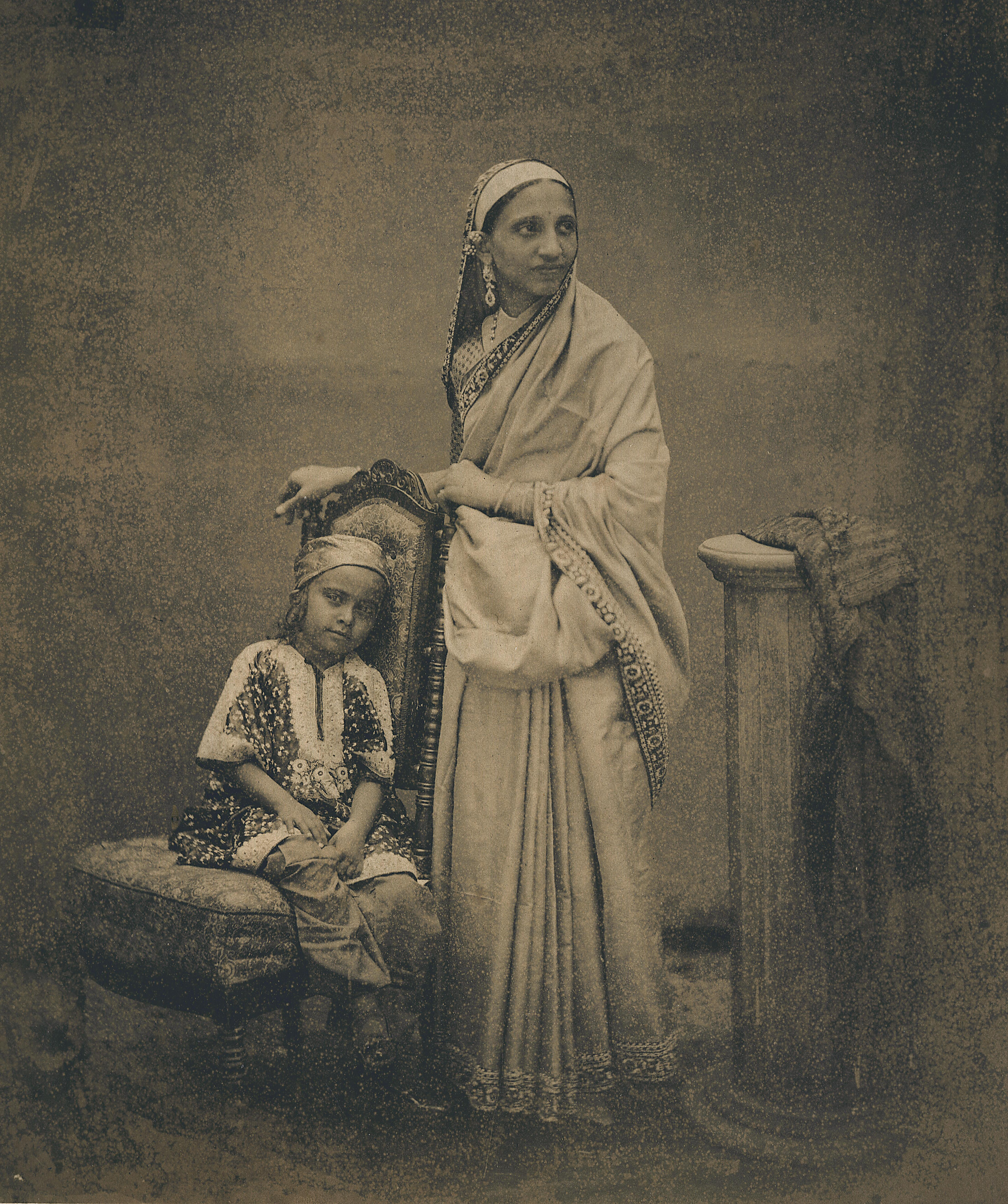 Parsi woman and boy, presumably at Bombay, British India